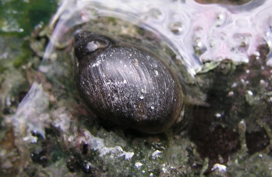 Close-up of a Banff Snail (Physella johnsoni), photo taken in a hot spring pool, Cave & Basin National Historic Site by Paul M. K. Gordon. The snail is approximately 3-5mm in size.